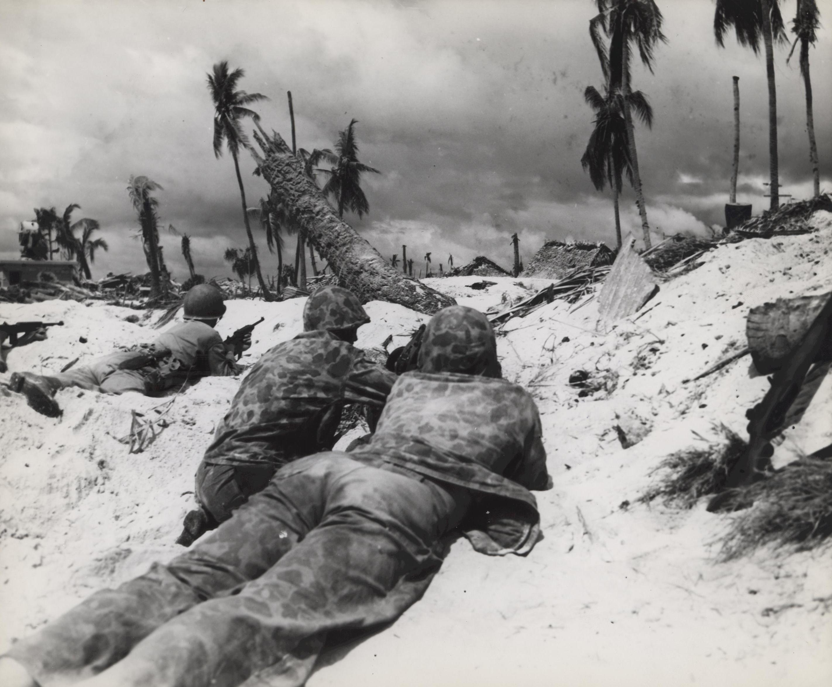 "On Tarawa Beach-Marines landing on Tarawa Island beach creep up on Jap pill boxes. The terrain of the island offered very little protective covering but these Marines made use of what little covering there was. Some of the Jap troops in pill boxes held out for two days before they surrendered or were blasted out." From the Julian C. Smith Collection (COLL/202), Marine Corps Archives & Special Collections OFFICIAL USMC PHOTOGRAPH